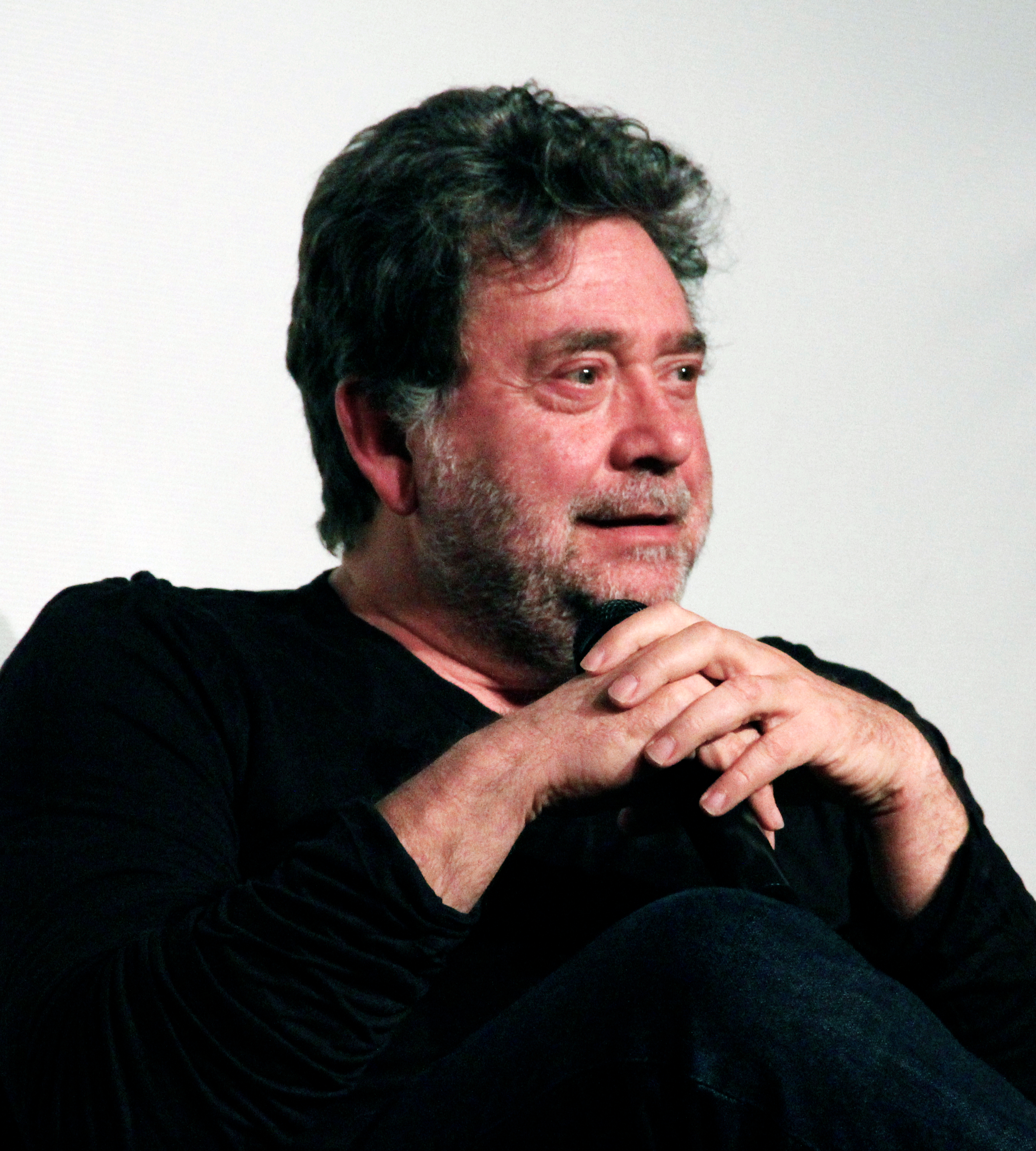 Cinematographer Guillermo Navarro at Vancouver Film School